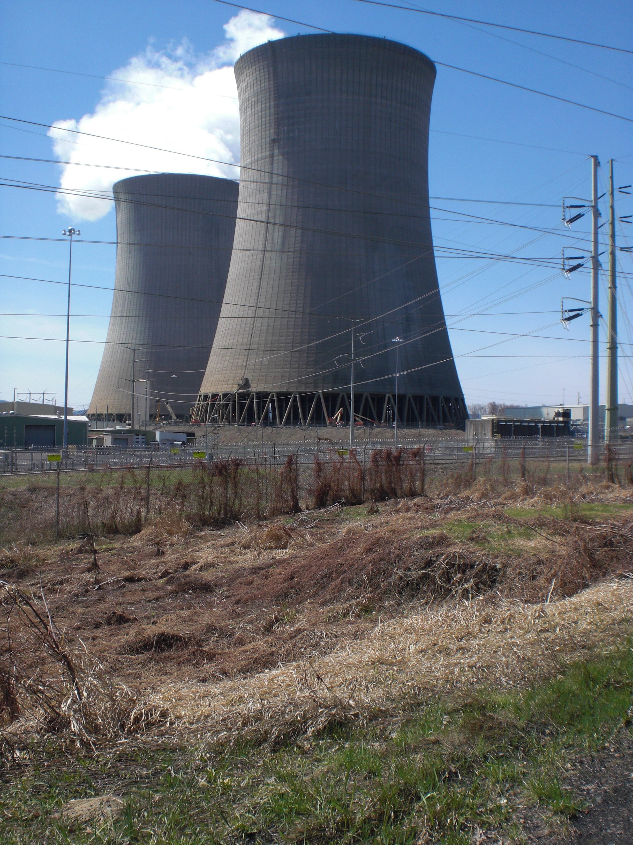 Susquehanna Steam Electric Station cooling towers from the north